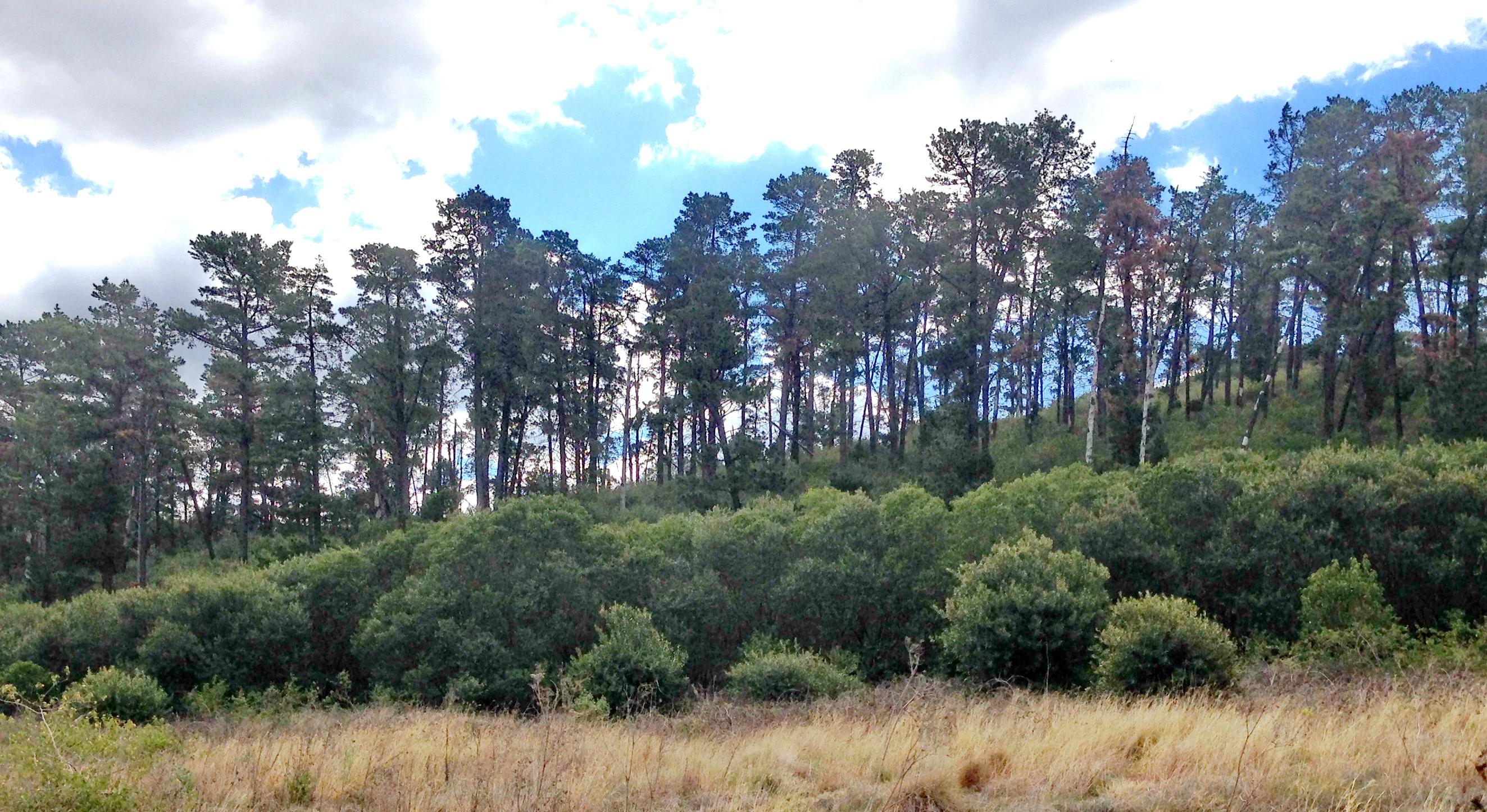 A Monterey Pine forest in greater Western Sydney, in Pemulwuy.